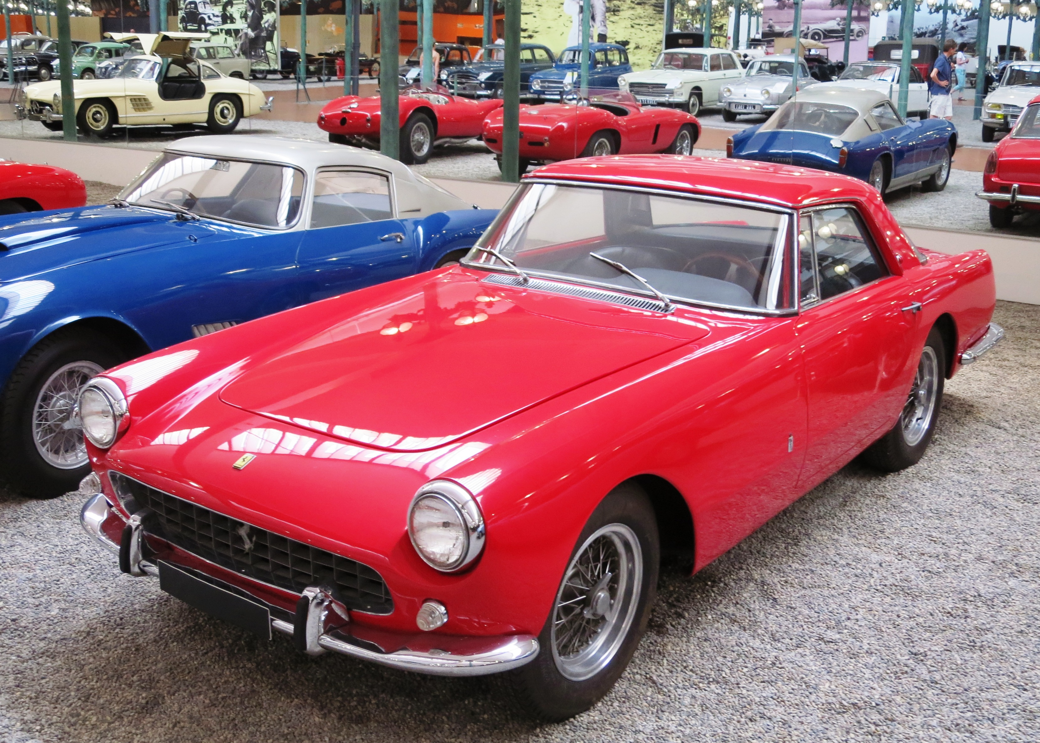 Ferrari Coupé 250 GT 2953cc (earlier than a 1964 model). Exhibited at Schlumpf Collection, Mulhouse. License plate "136 KFF 75" or "1347 W 68".[1]